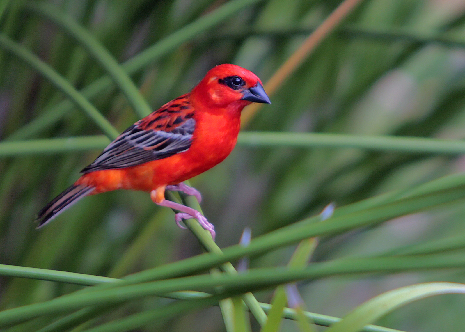 I snapped this on the grounds of the Anjajavy l'Hotel, Analalava, Mahajanga, Madagascar. planned an amazing trip for us!